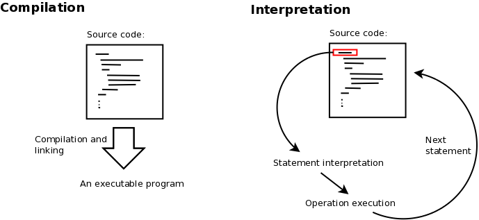 inter vs compile